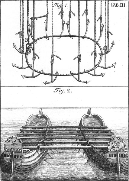 An illustration of salvaging techniques in the early 18th century from a treatise on salvaging by Triewald published in 1734